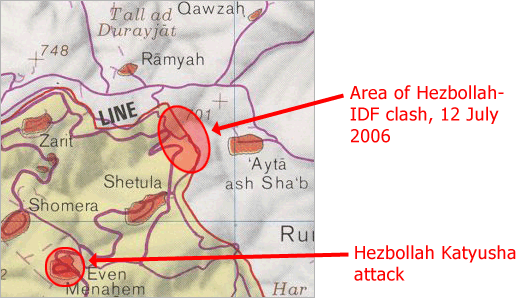 Map of Zar'it and vicinity illustrating the localities involved in the Zar'it-Ayta ash-Shab incident which sparked the 2006 Israel-Lebanon conflict.